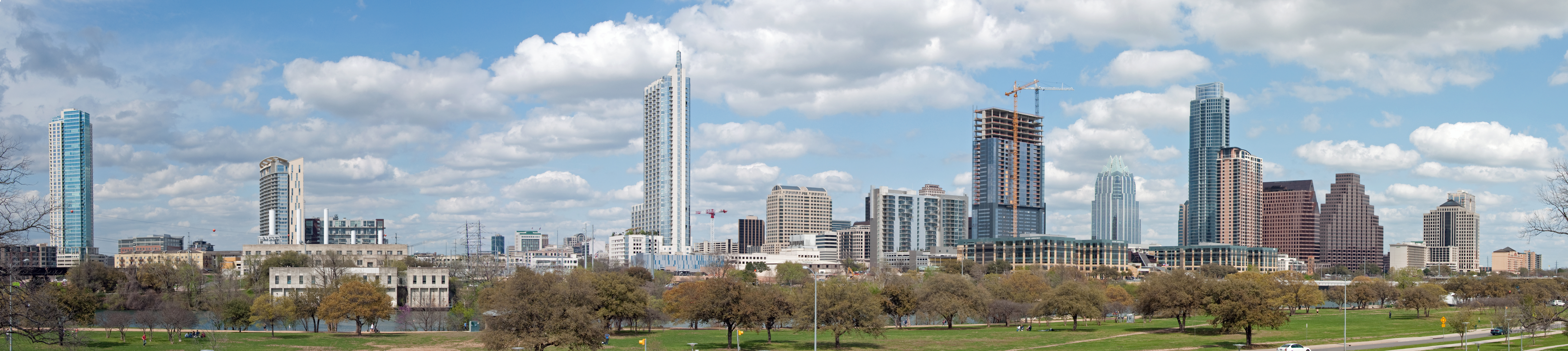 A panorama of downtown Austin, Texas, United States, taken March 2010.